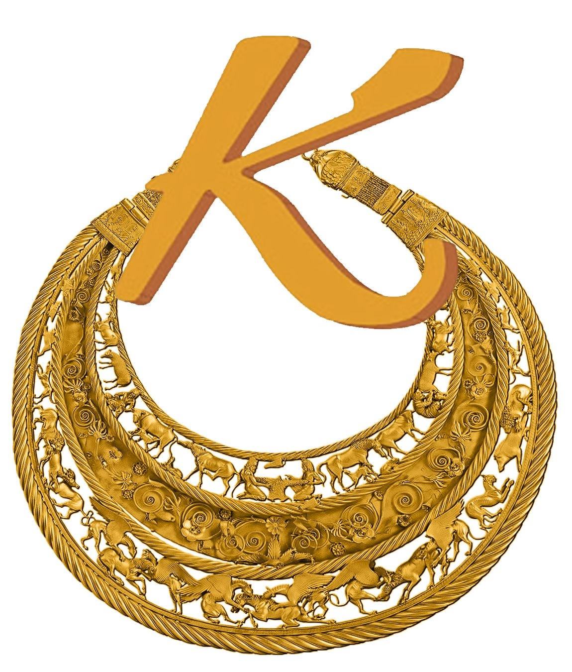 Kultura (Ukrainian television channel) Owned by State Television and Radio Broadcasting Company "Culture"